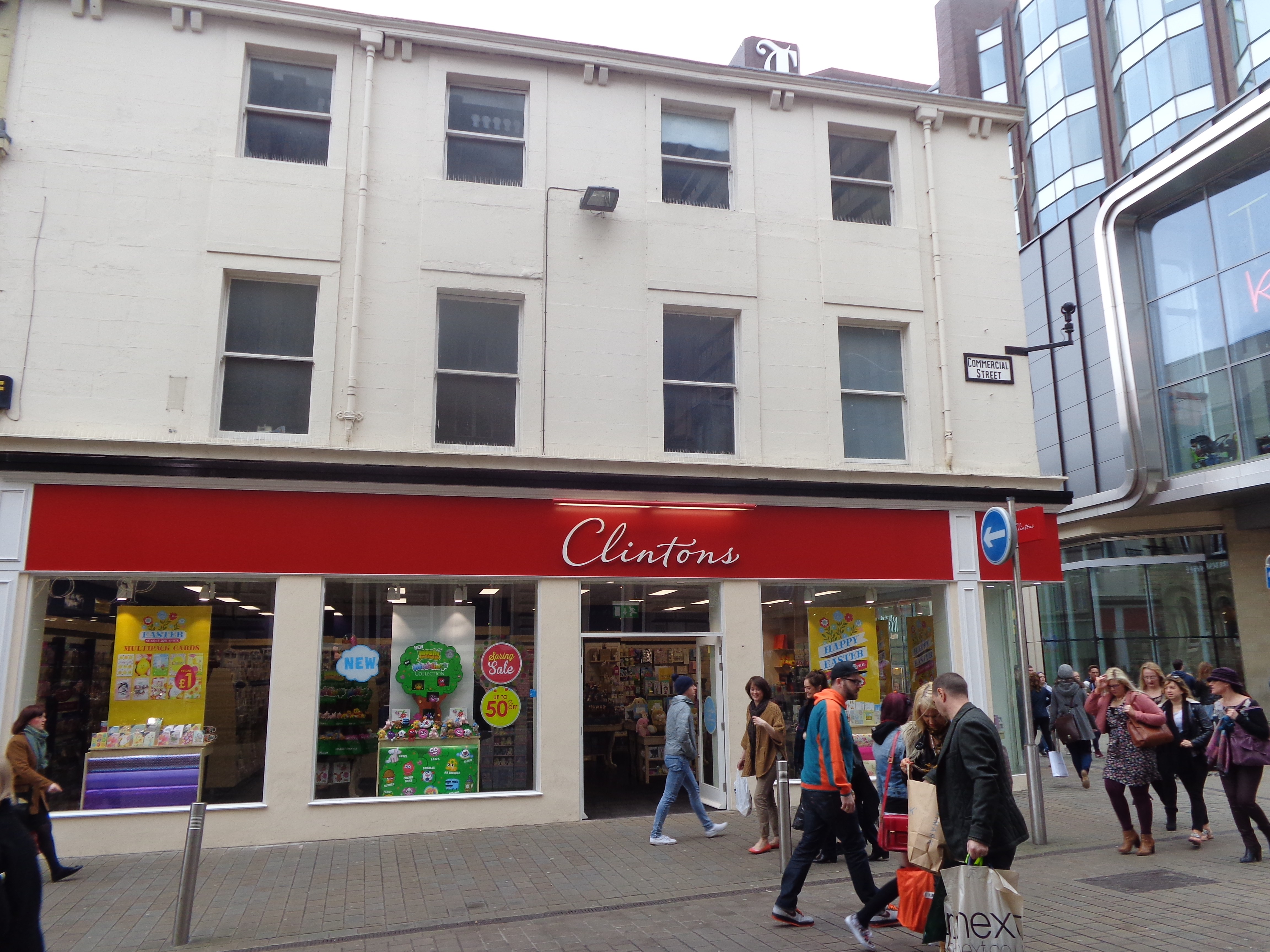 Clinton Cards, Commercial Street, Leeds, West Yorkshire. Taken on the afternoon of Saturday the 12th of April 2014.